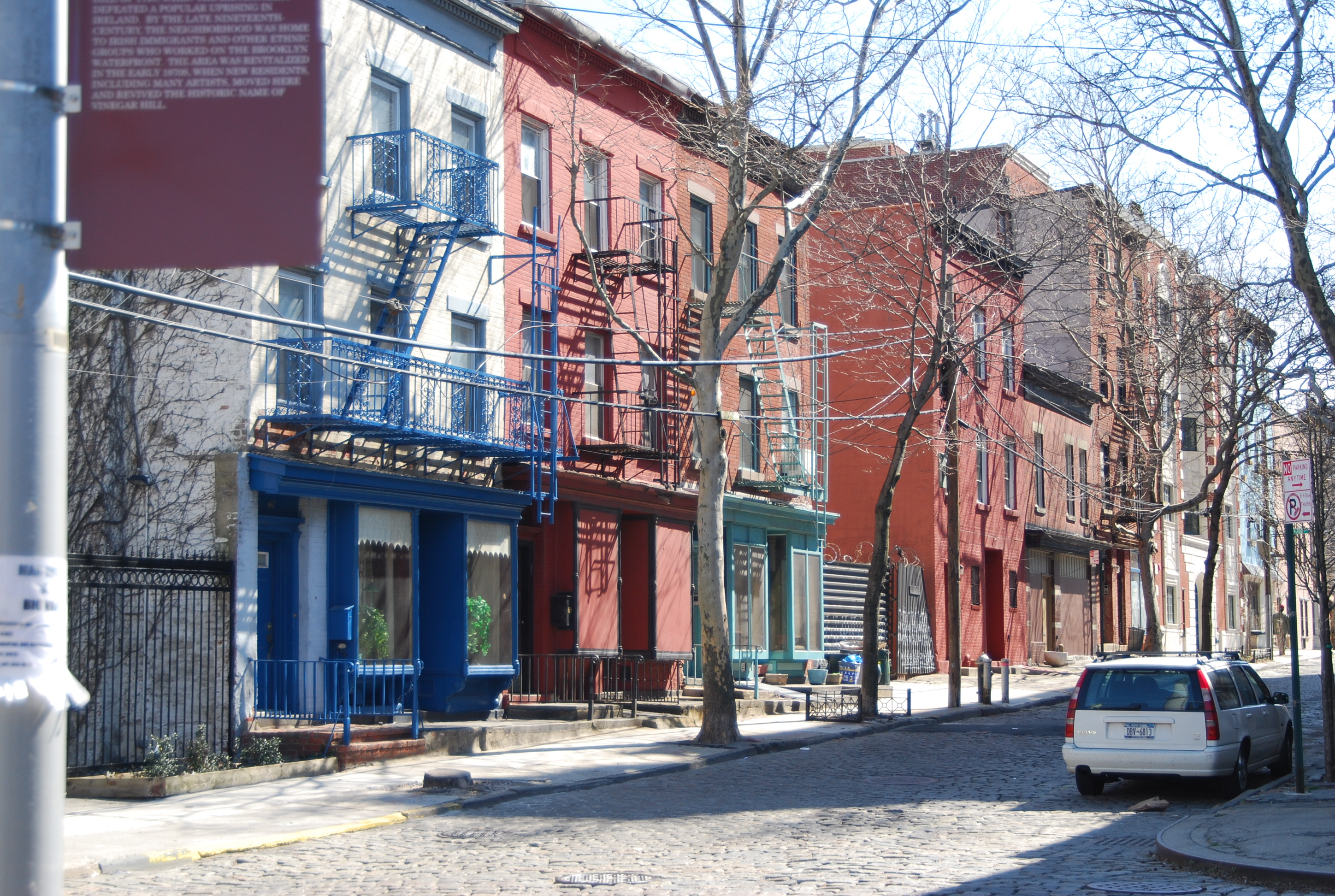 Hudson Ave at Water Street